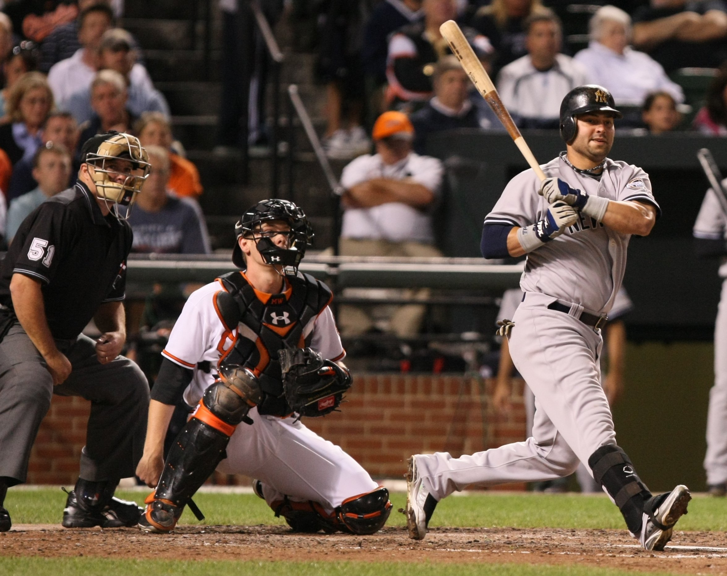 Nick Swisher batting in a game between the New York Yankees and Baltimore Orioles on 08/31/09.